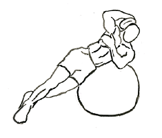 an exercise of abs